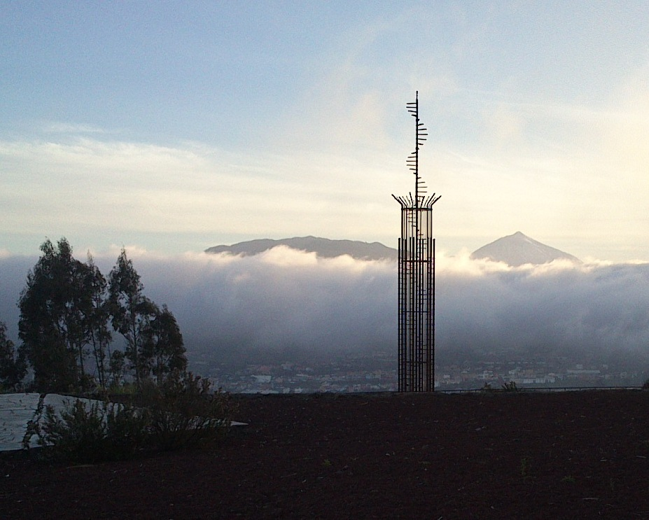 Monument by the Dutch artist Rudi van de Wint. Erected in memory of the 583 victims of the Tenerife airport disaster (March 27, 1977), the deadliest air crash in history. Located in Mesa Mota park.